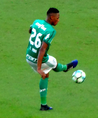 Yerry Mina